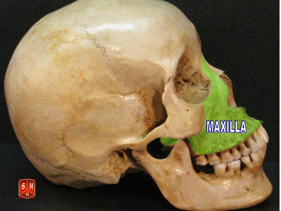 Maxilla